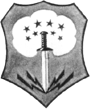 Emblem of the 422d Bombardment Squadron (SAC)